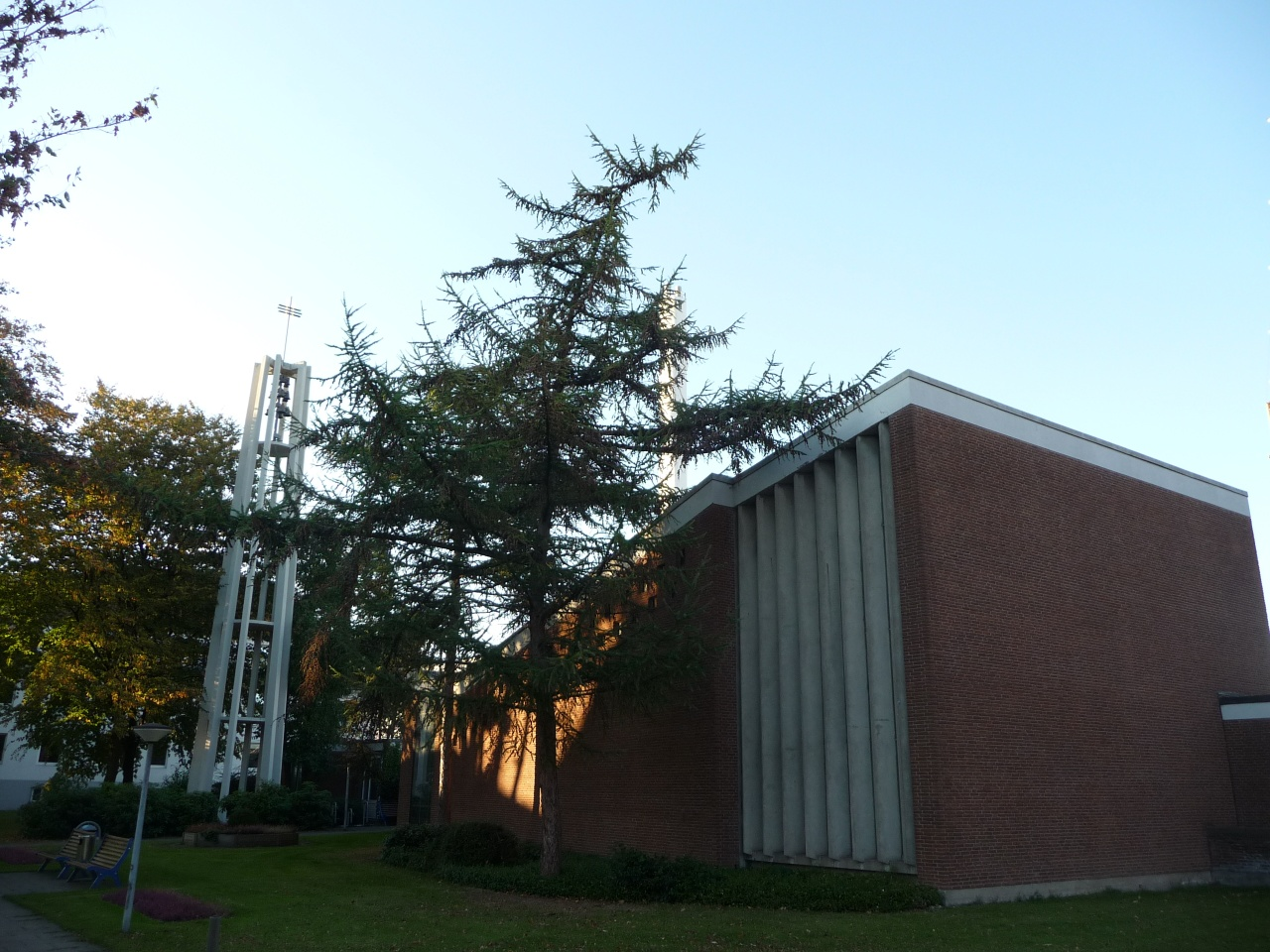 church of the hospital St. Jürgen in Bremen-Hulsberg